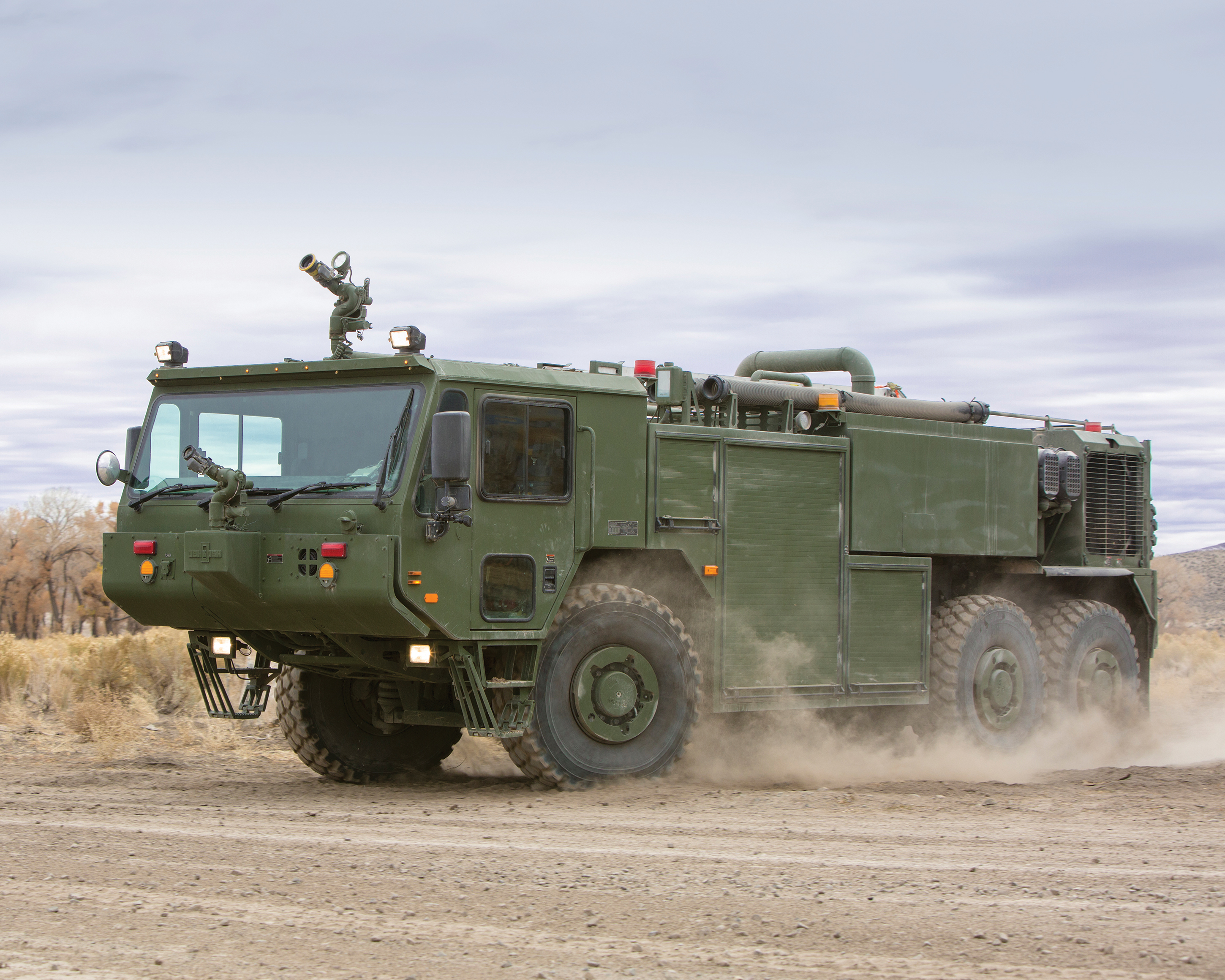 Oshkosh P19R